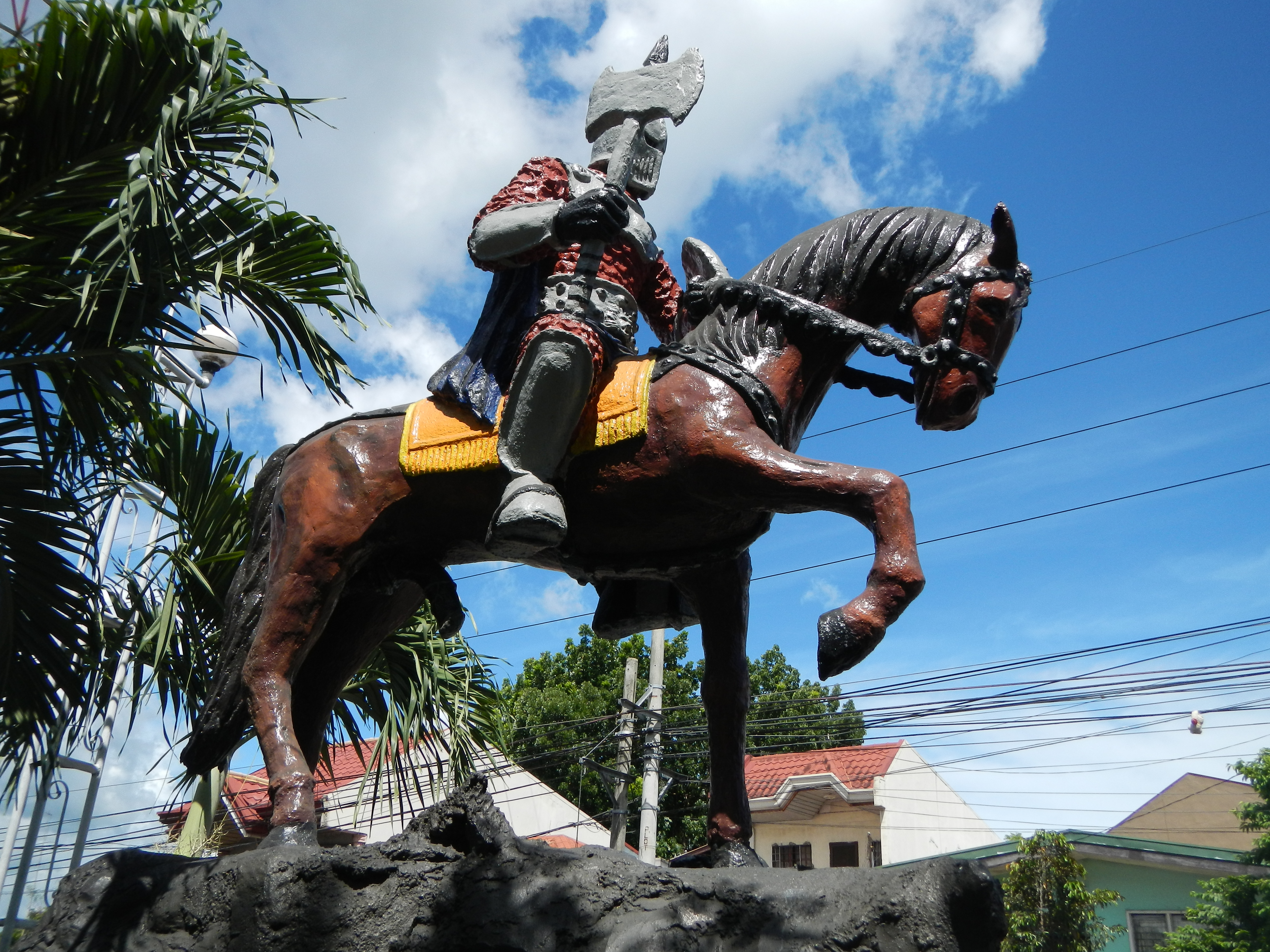 Cavalier - Crossing, Junction, National Highway, Barangay Maybancal where the "CAVALIER Statue"-is located.[1] [2] Coordinates: 14°31'32"N 121°14'30"E - Morong, Rizal[3] is a first class municipality in the province of Rizal, Philippines. According to the latest census, it has a population of 50,538 inhabitants in 8,988 households. A popular attraction is Spanish-era St. Jerome's Parish Church. The town is also known for featuring the balaw-balaw side dish. Morong is politically subdivided into 8 barangays with 3 situated in the poblacion, including Maybancal where the "CAVALIER Statue"-is located.